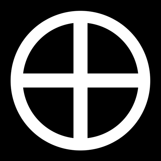 Maru ni Jūmonji mon, depicting kanji "十" (ten) in a circle. Kutsuwa mon is the same geometry.